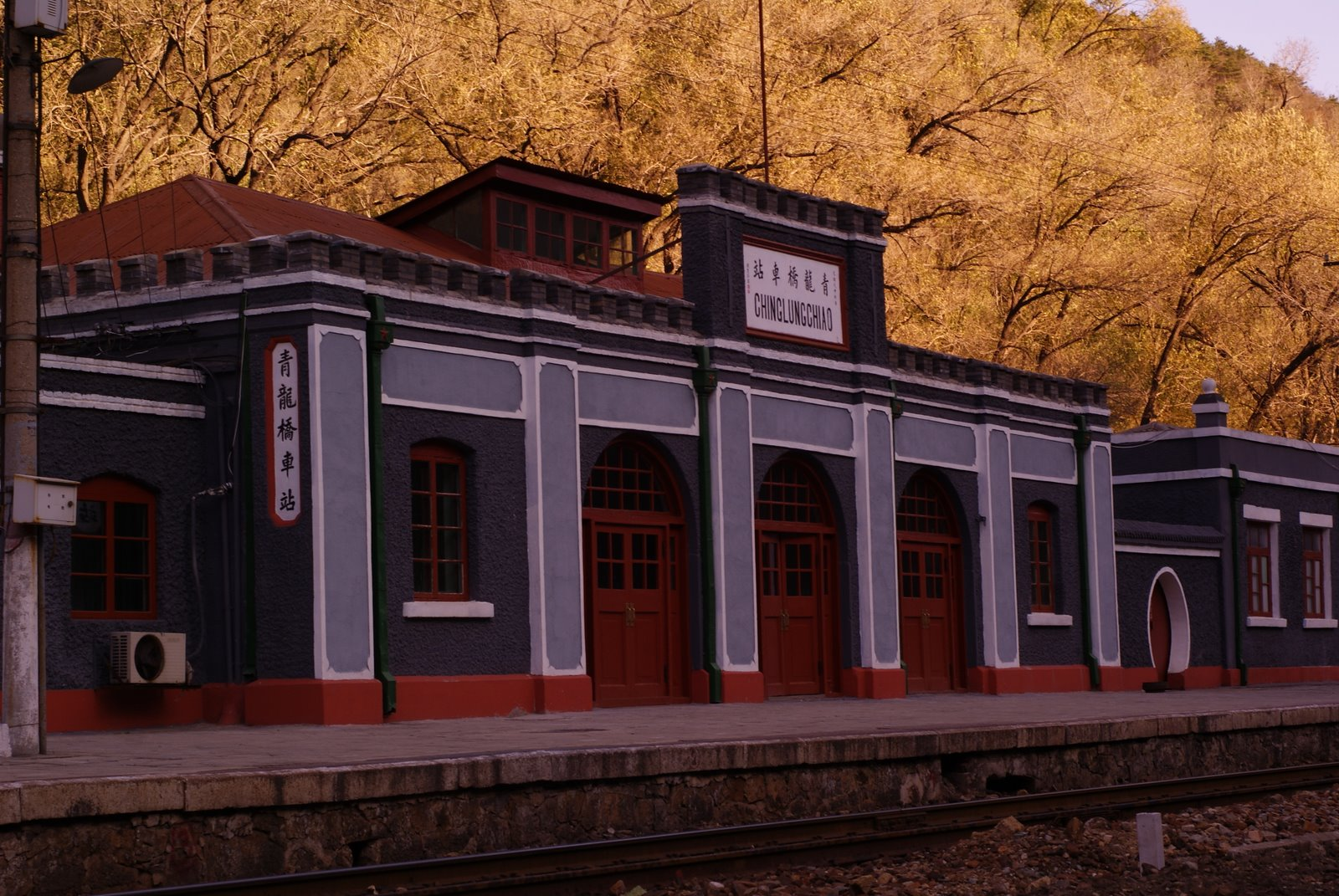 ChinglungChiao Railway Station